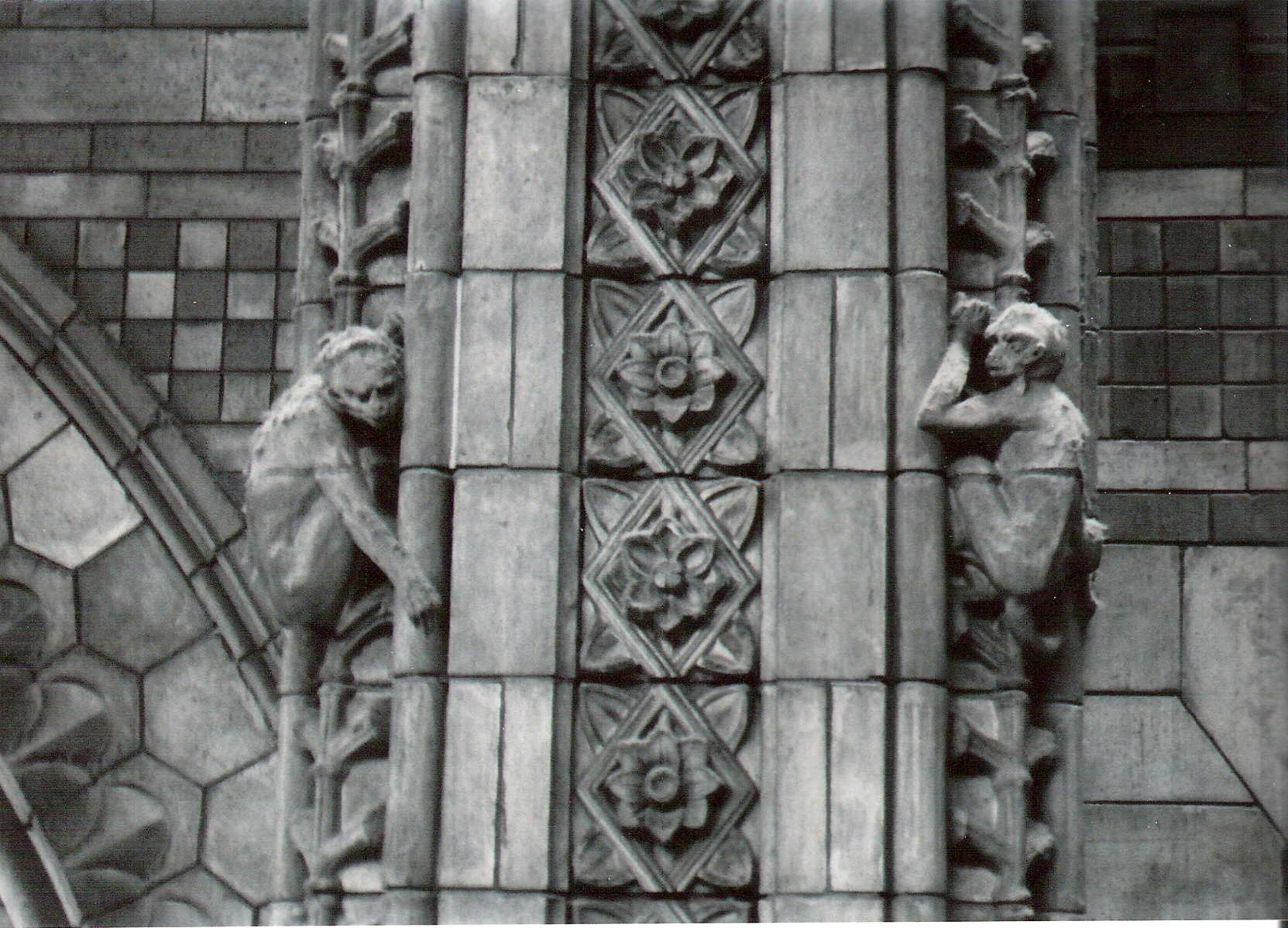 Taken on a recent trip to the museum